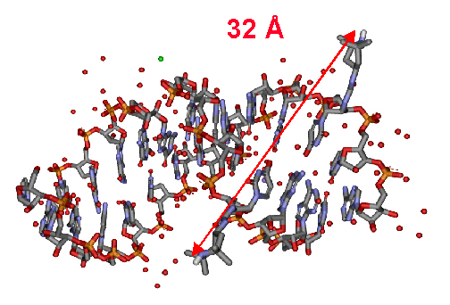 The distance between two spin labels attached to a double helix RNA was determined by means of pulsed electron double resonance.